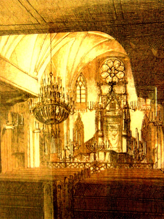 Inside of Old synagogue in Prague, 1850